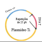 Plasmideo Ti